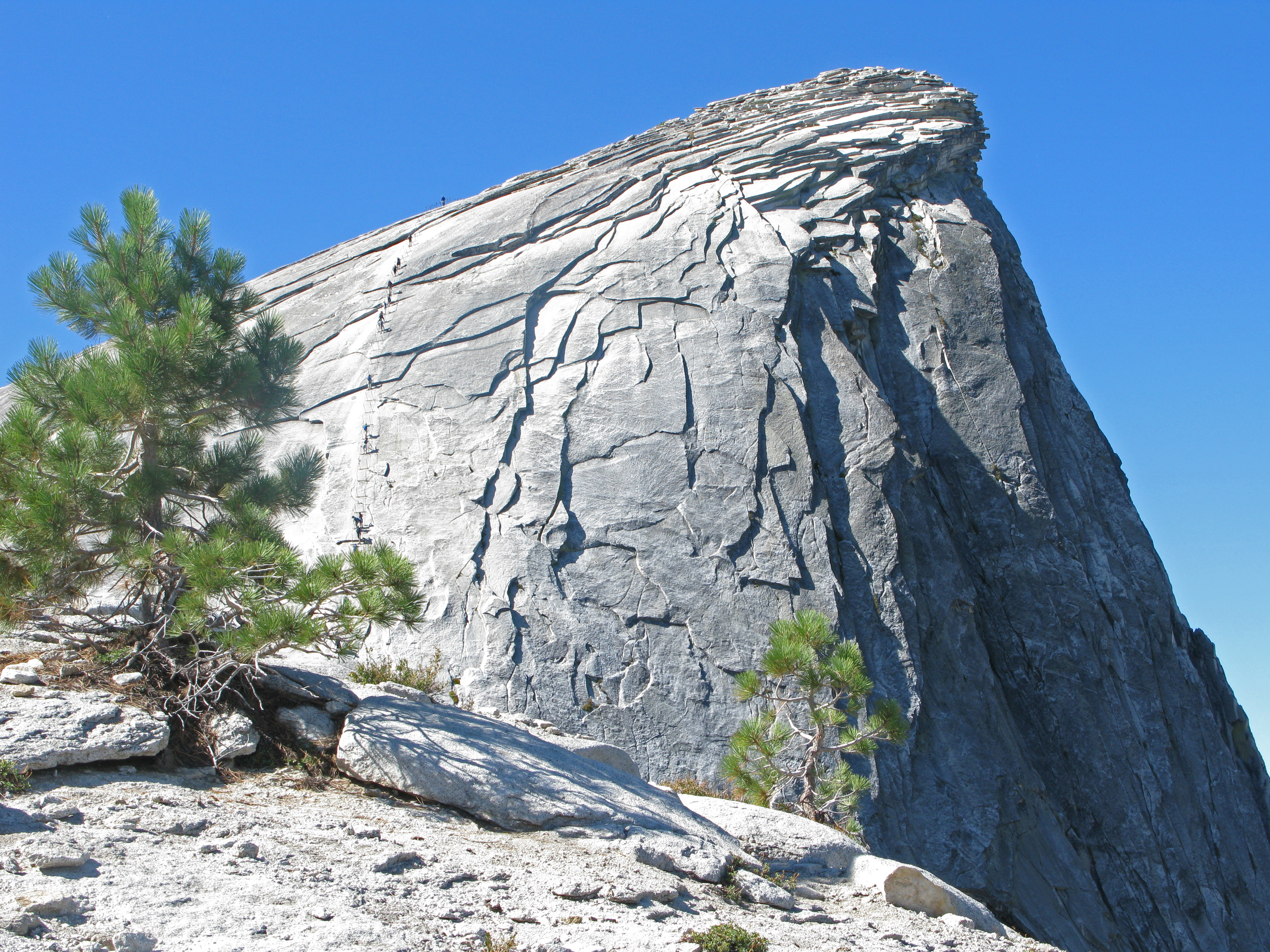 Nearly there - see the climbers going up the dome?